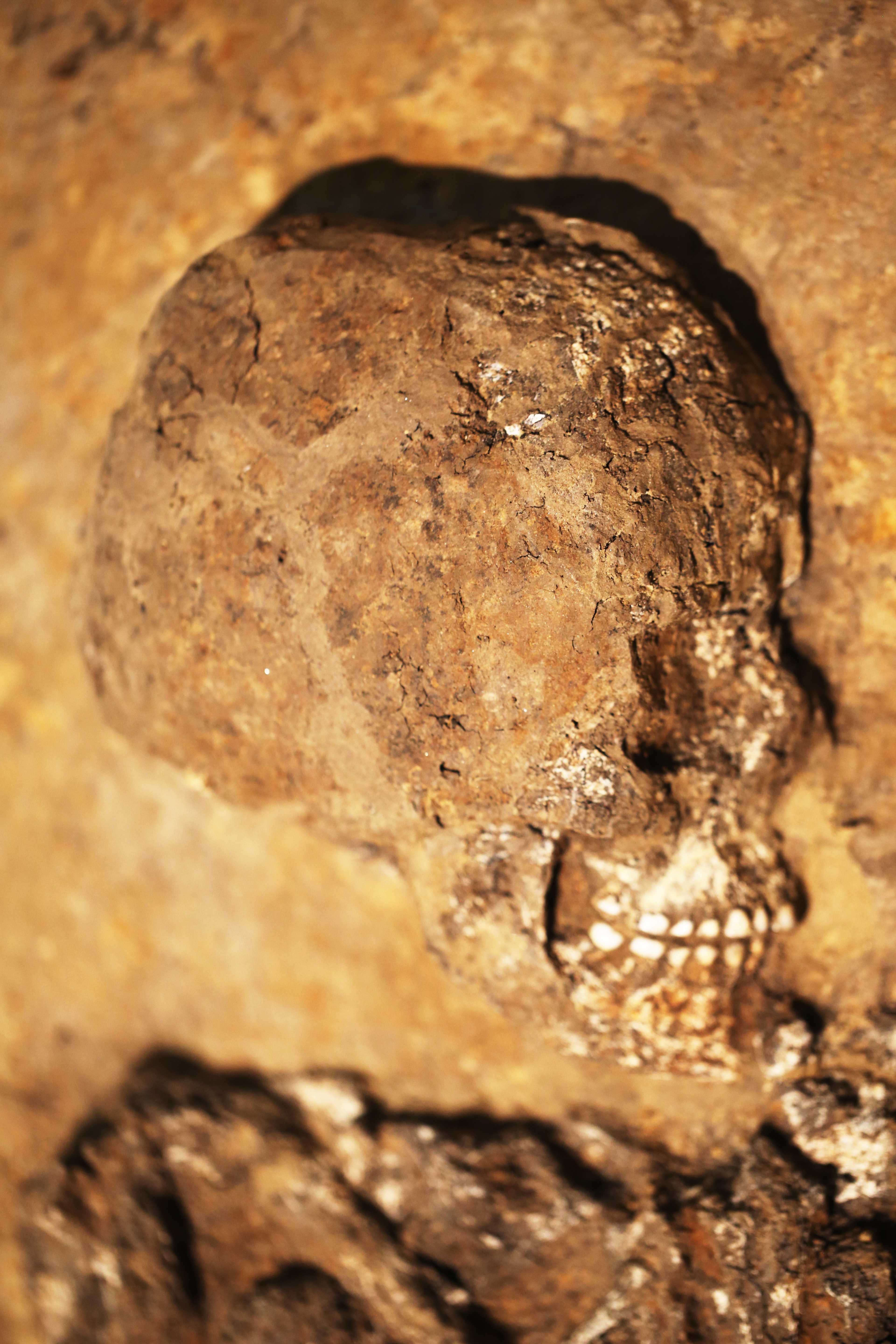 Neolithic skeleton of a woman, located near by Düren-Arnoldsweiler, Germany